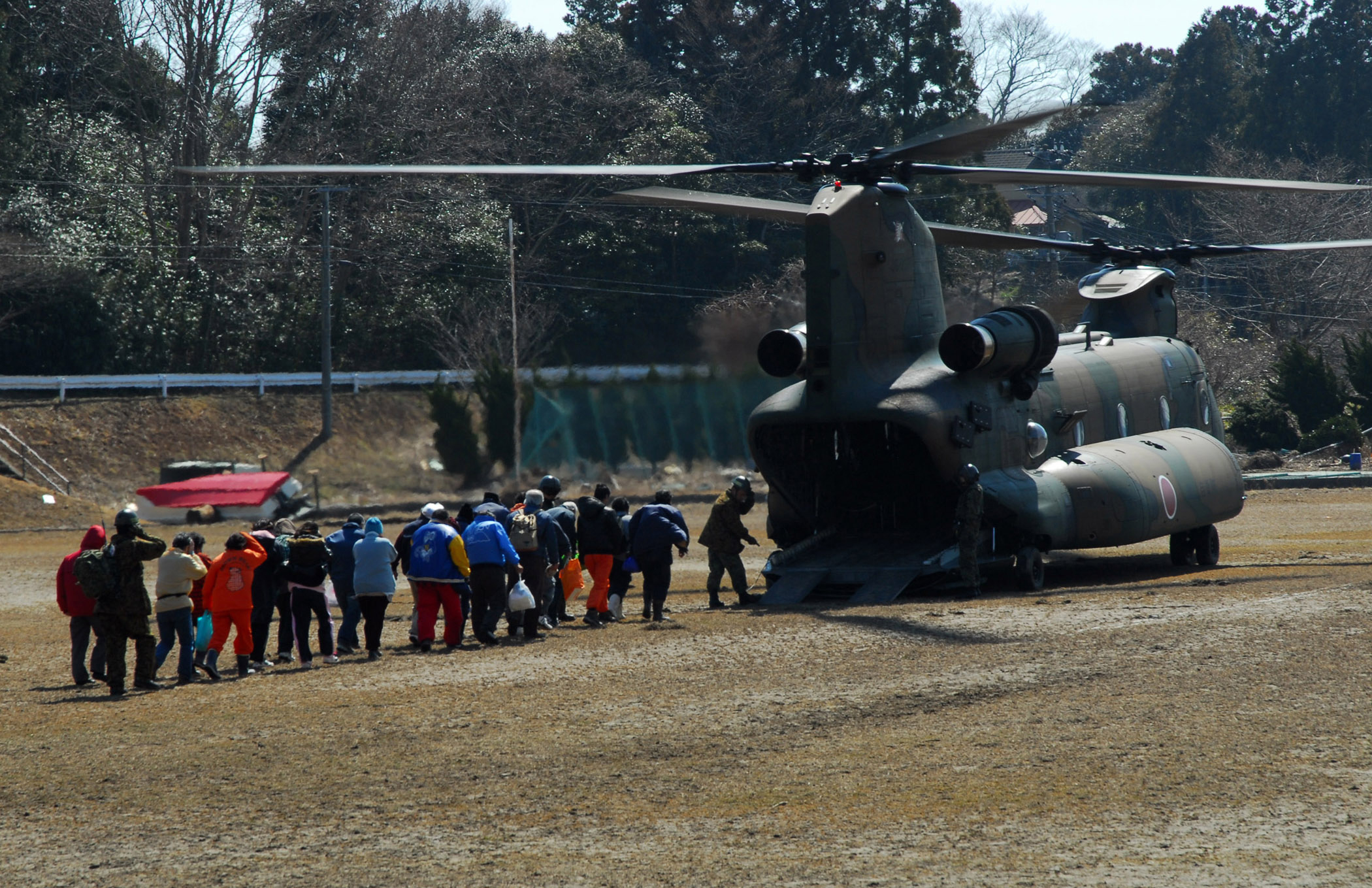 OSHIMA ISLAND, Japan (April 1, 2011) – A Japan Self Defense Force CH-47 Chinook helicopter loads residents of Oshima Island en route to the Japan Maritime Self-Defense Force helicopter-carrying destroyer JS Hyuga (DDH 181) as part of Operation Sea Bathing. Operation Sea Bathing is designed to help local residents do laundry and take warm showers. (U.S. Navy photo by Mass Communication Specialist 2nd Class Eva-Marie Ramsaran) Additional explanation.This is JGSDF CH-47JA.